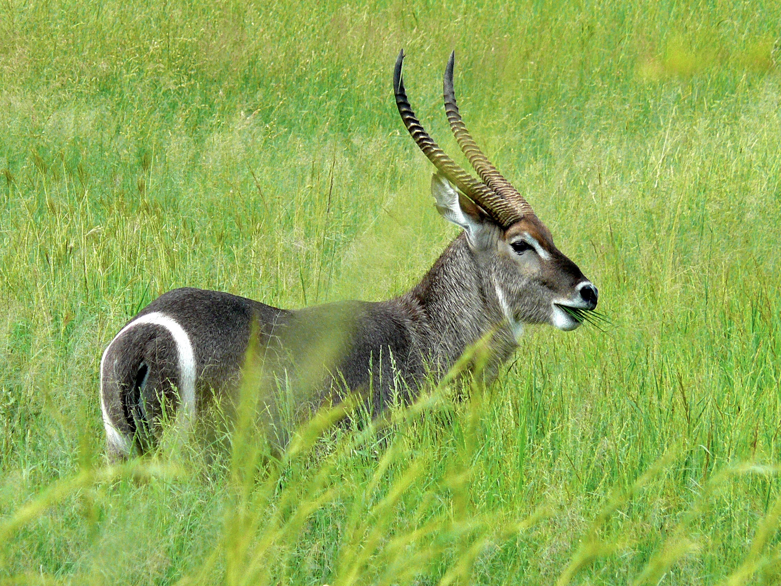 Transport Dam South of Skukuza, Kruger NP, SOUTH AFRICA